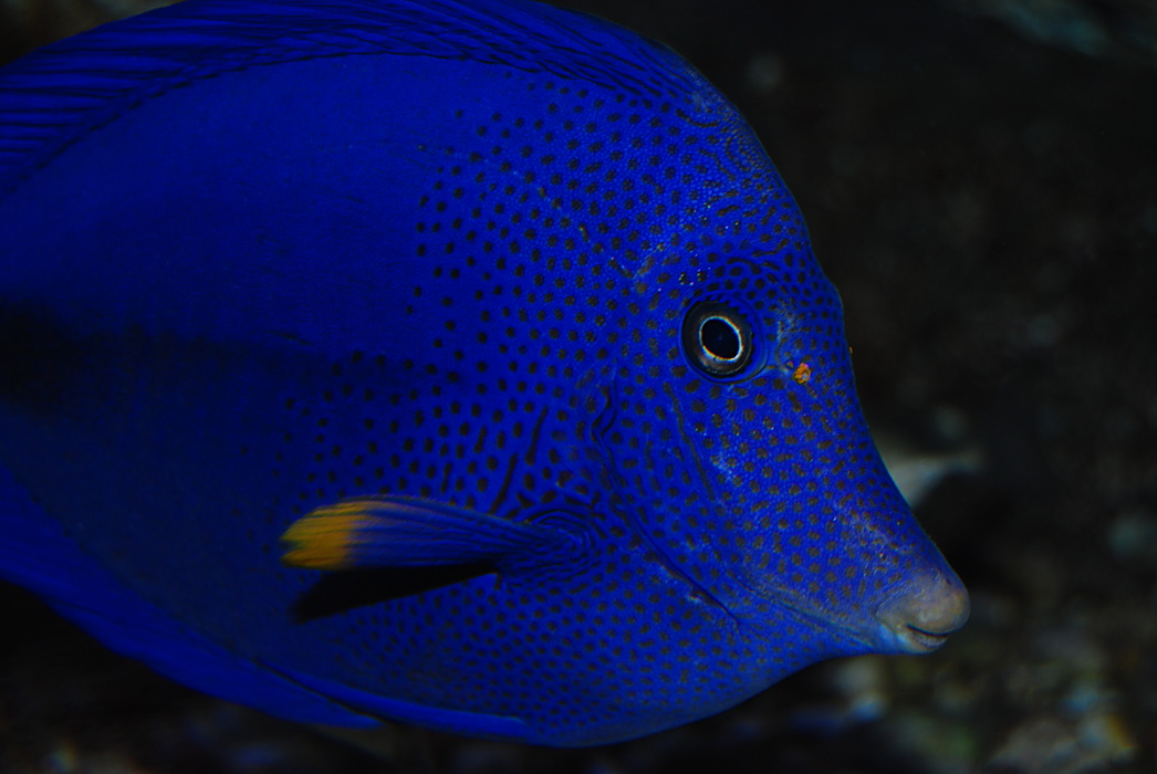 Yellowtail surgeonfish